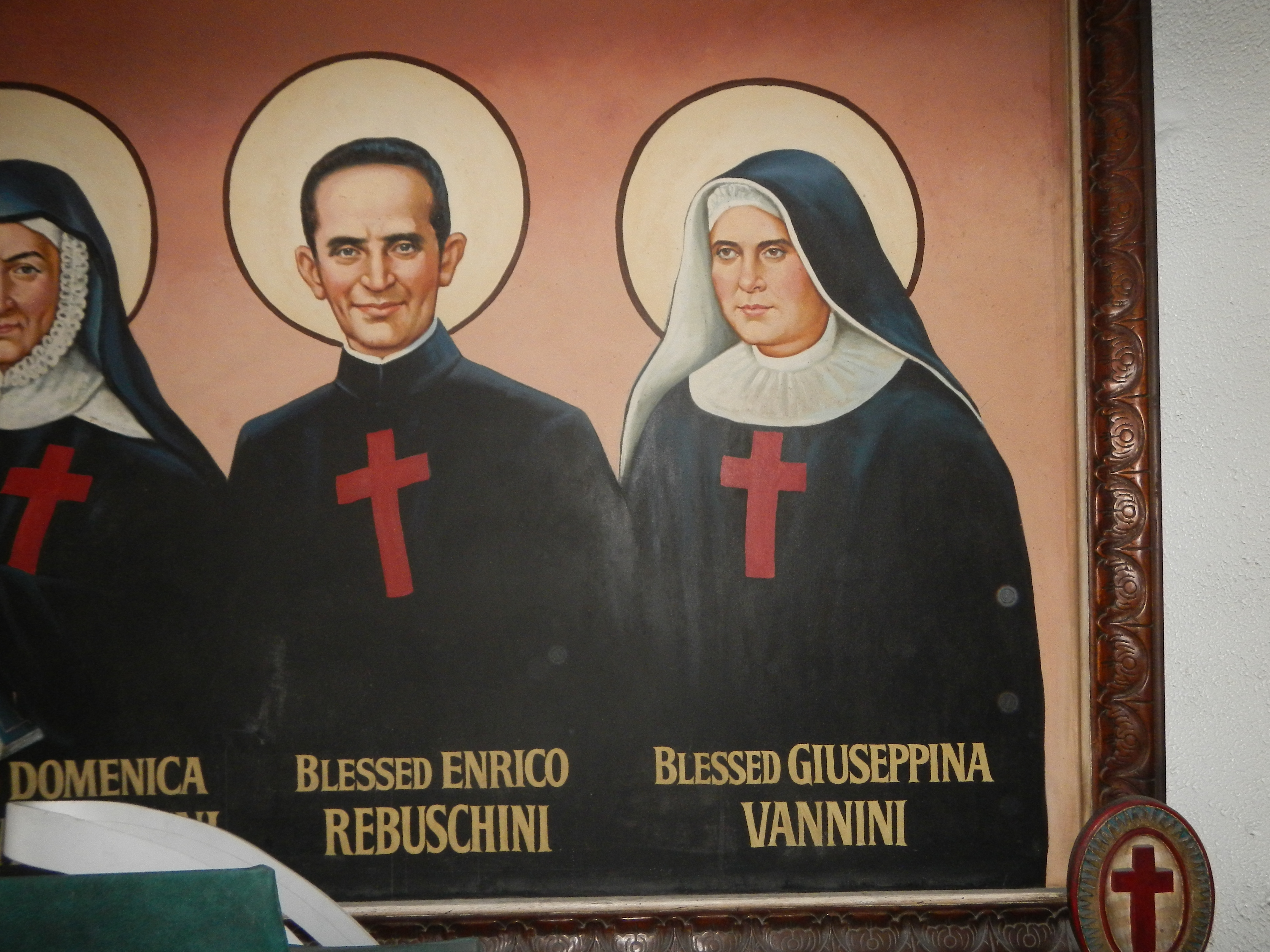 Our Lady of La Paz Parish Church (Saint Camillus de Lellis, Archimedes-Flordeliz Streets, Makati City) Roman Catholic Archdiocese of Manila List of barangays of Metro Manila, Legislative districts of Makati, Barangay La Paz, Makati City.